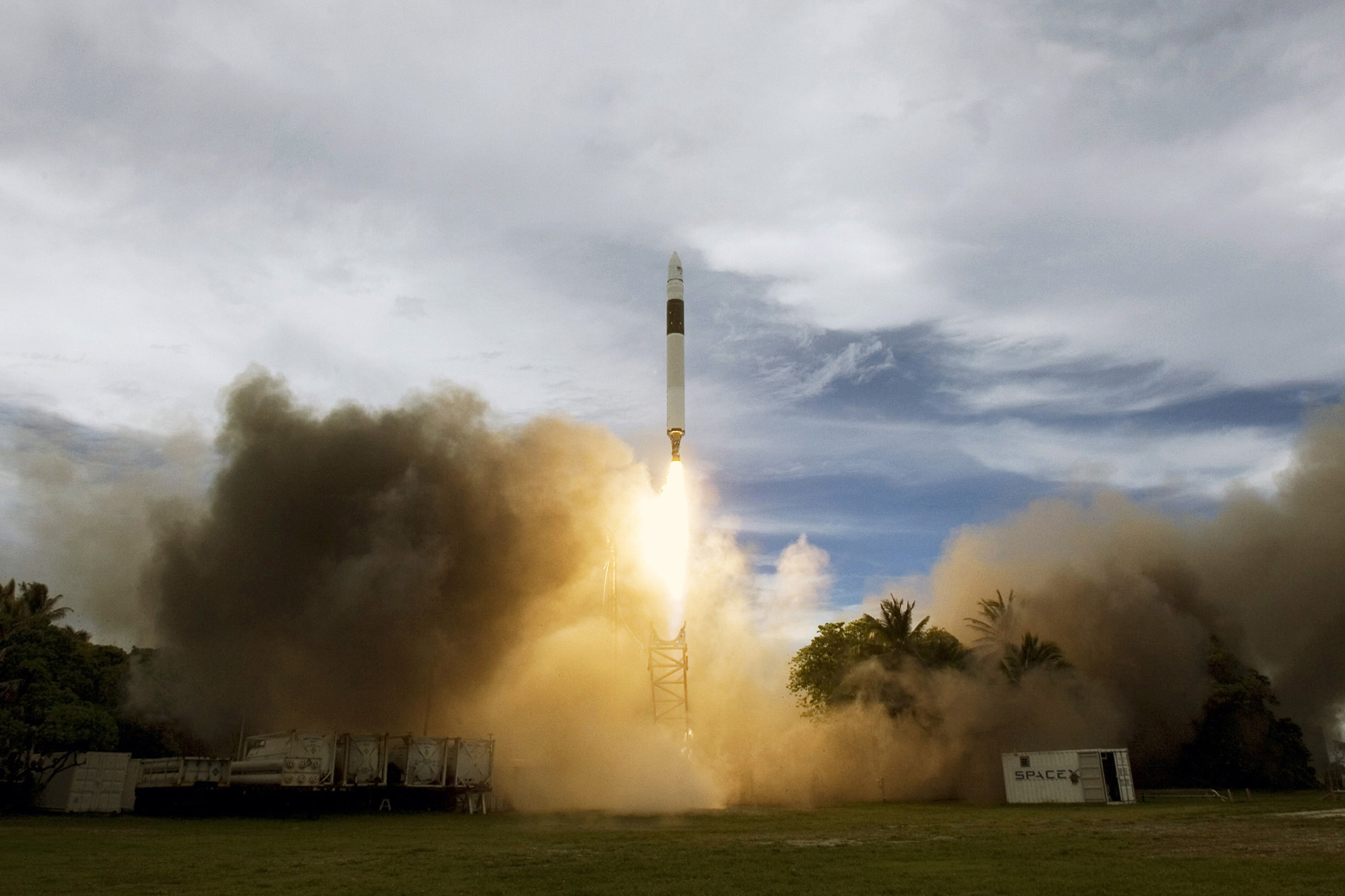 Falcon 1 launches from Omelek Island in the Kwajalein Atoll